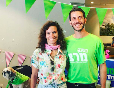 קלמן וניר בויעדת מרצ 2017